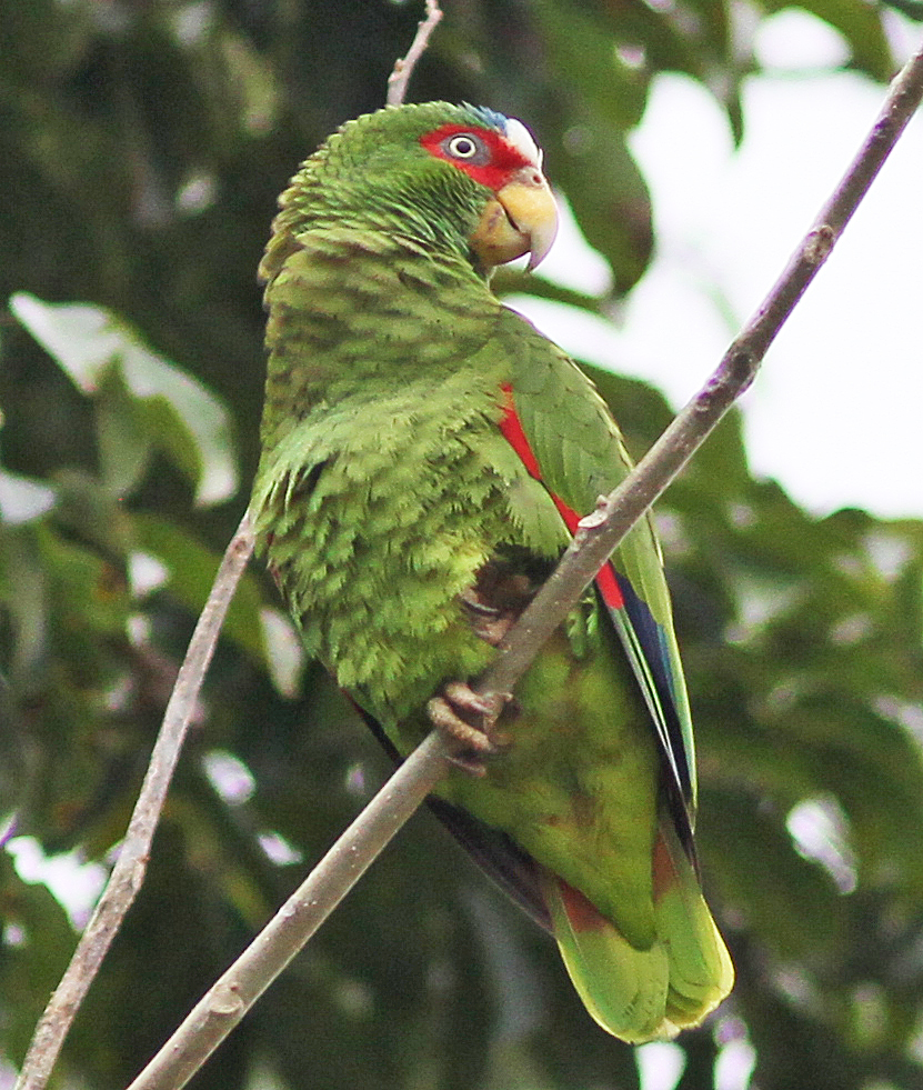 Taken at Tikal, Guatemala